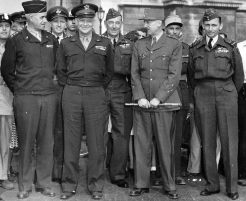 Description: front row (left to right) General Omar Bradley, Eisenhower, General Marie-Pierre Koenig and Air Marshal Tedder in Paris, 1944